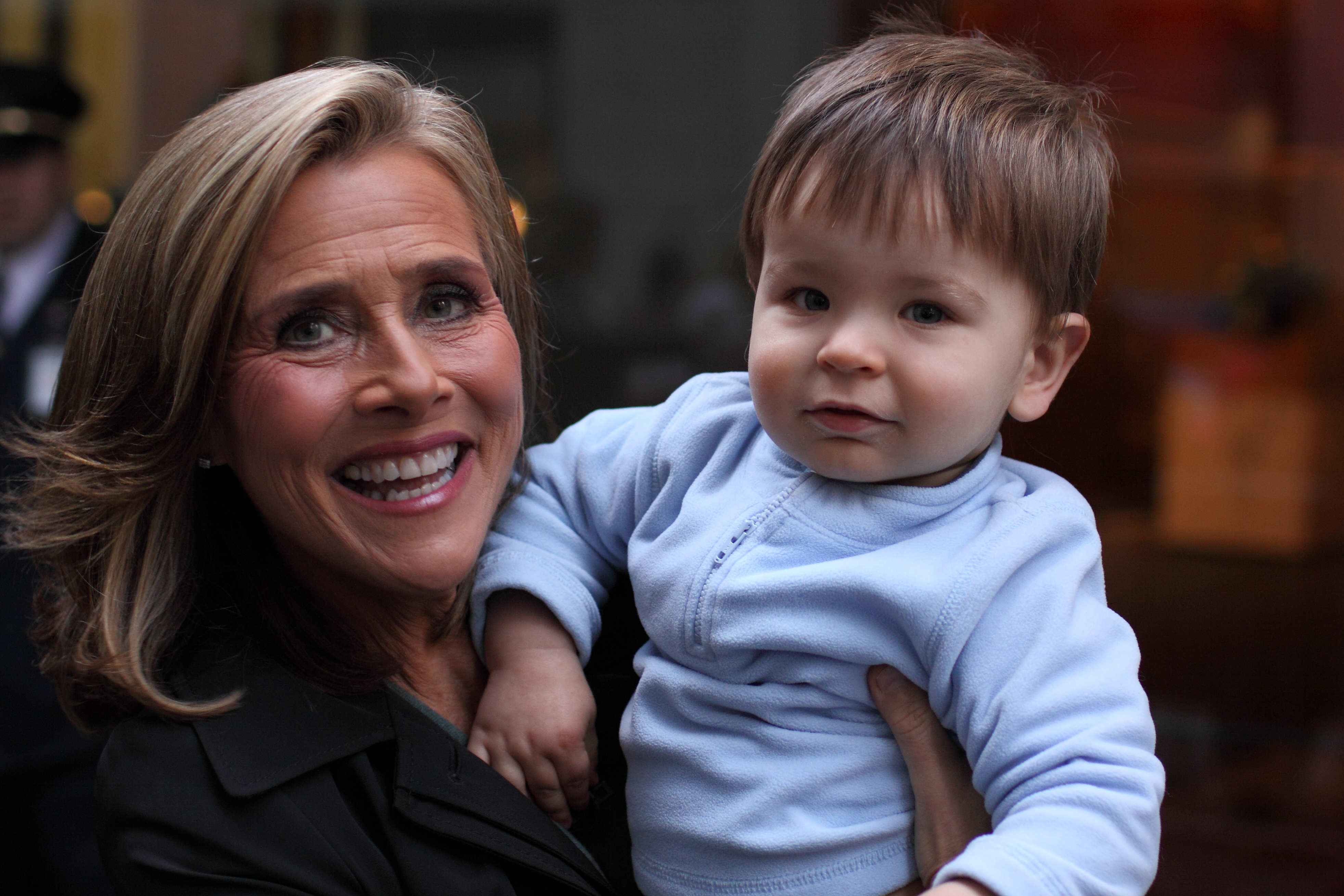 The file's data reads "07:09, 12 October 2010", The actual time is 08:09, my camera was on central time, and this photo was taken outside the NBC studios in New York City.